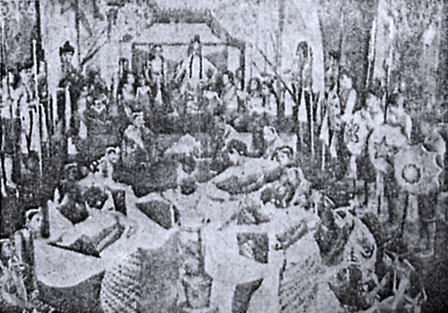 Promotional still for the film Tjioeng Wanara